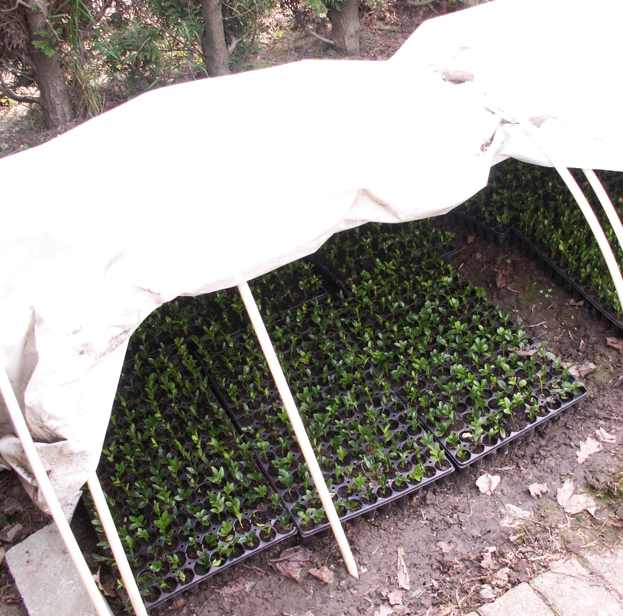 A small plastic greenhouse used for cuttings. It is used to keep the cuttings humid while rooting (a prerequisite for the cuttings to catch on). The cuttings are from Buxus sempervirens.